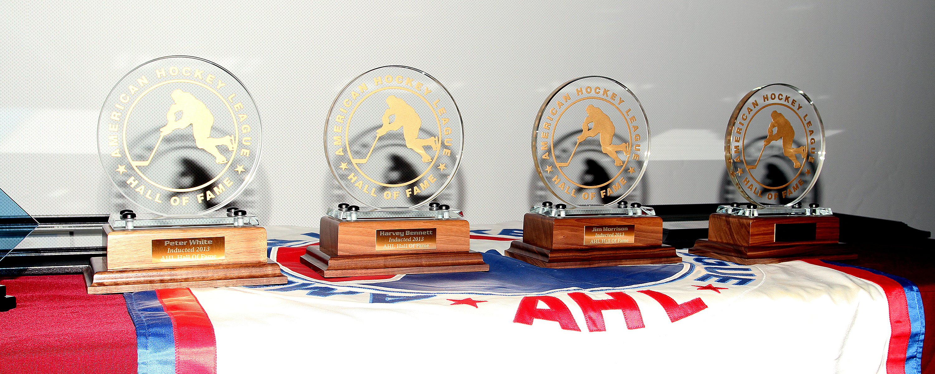 Alan Sullivan - Photographer American Hockey League (AHL). 2013 AHL Hall of Fame Ceremony. Taken on January 28, 2013.